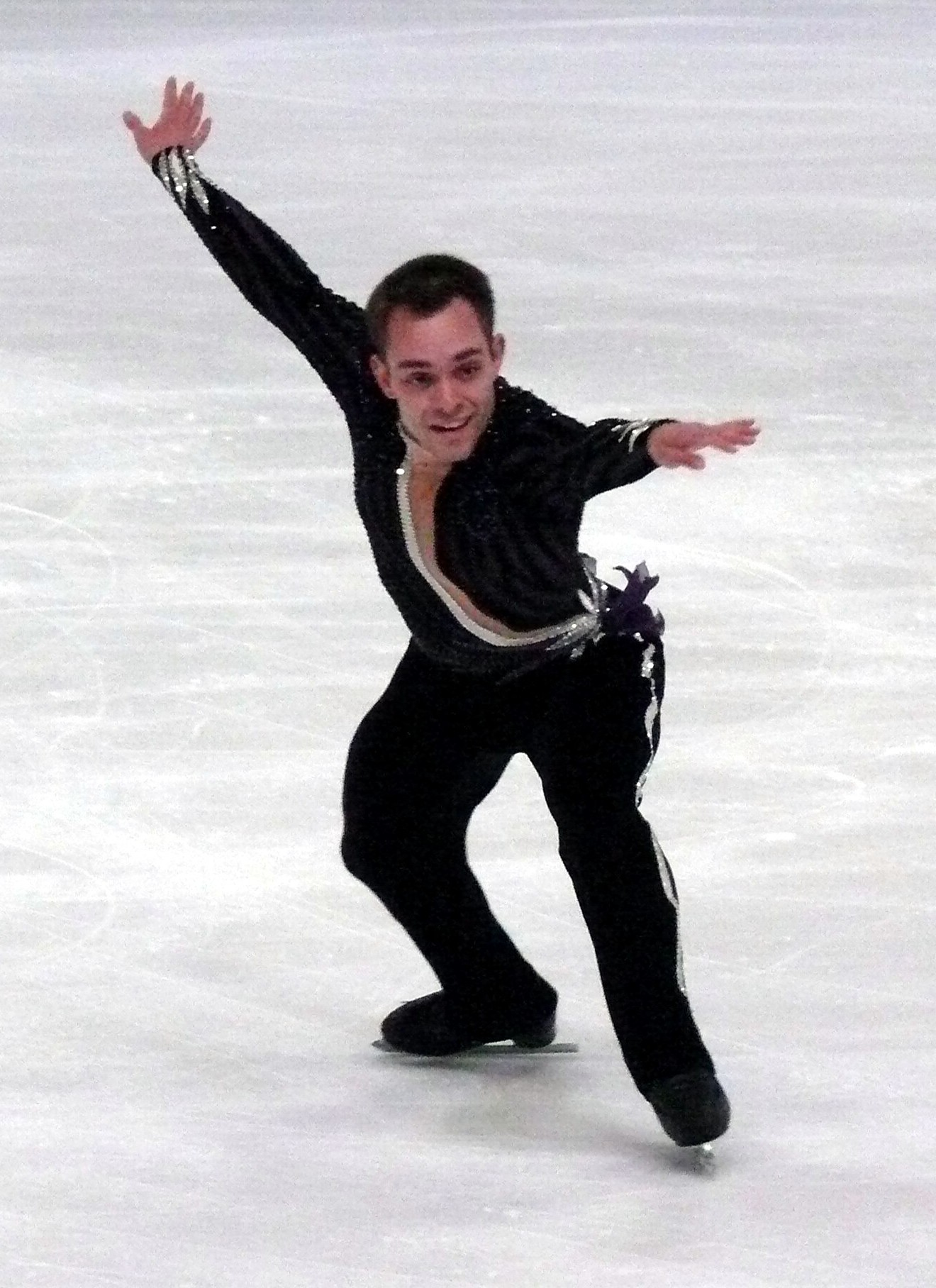 Paul Bonifacio Parkinson (ITA) at his free program at the Nebelhorn Trophy 2013 in Oberstdorf / Bavaria / Germany.